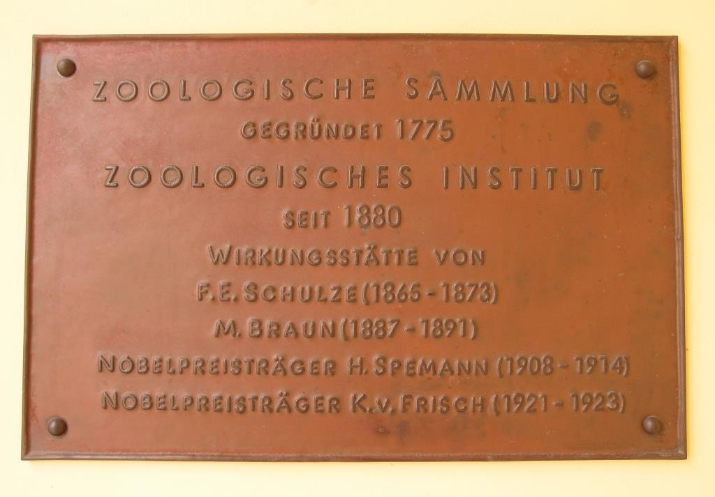 Gedenktafel am Eingang der Zoologischen Sammlung Rostock